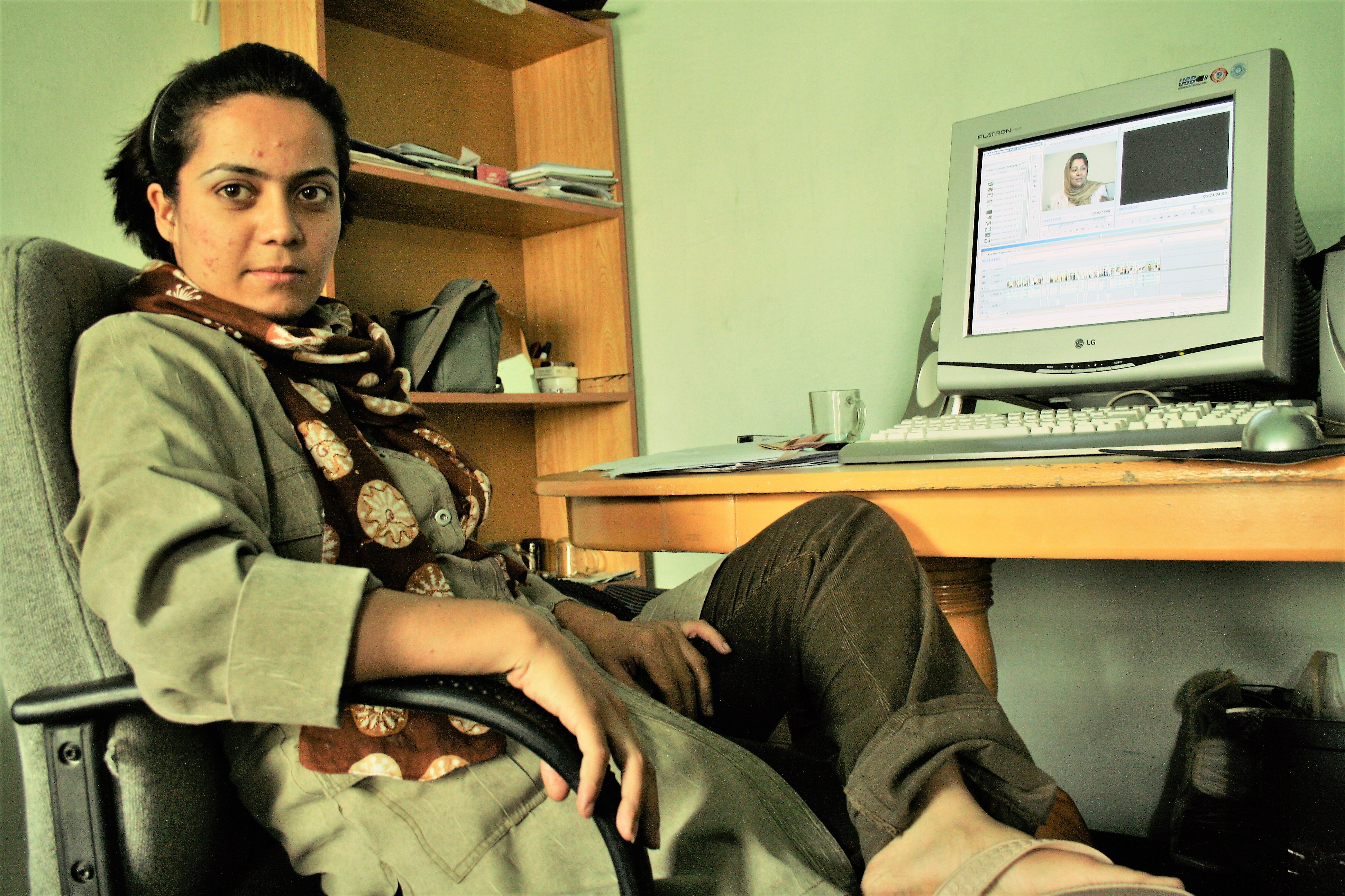 Diana is one of the post-Taliban female filmmakers. Her prominent production is Twenty-Five Percent which focuses on the lives of six women MPs in Afghanistan.